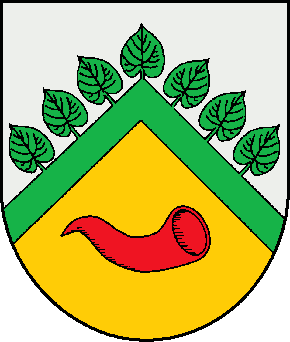 Coat of arms of the municipality Ruhwinkel in Schleswig-Holstein, Germany.